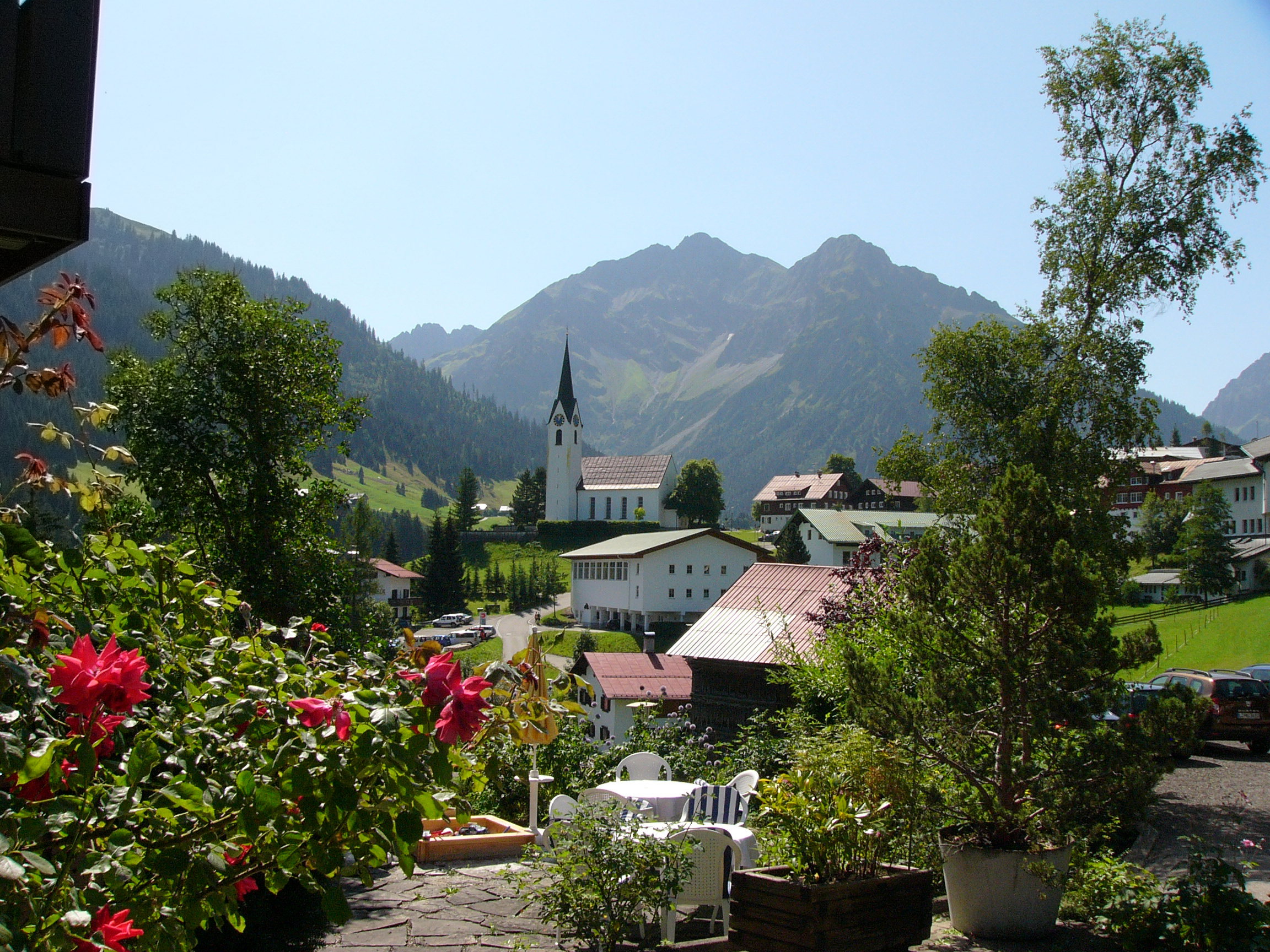 View to the Church St. Anna of Hirschegg and the mountains Elfer and Zwölfer, located near the Kleinwalsertal, a high valley in western Austria.